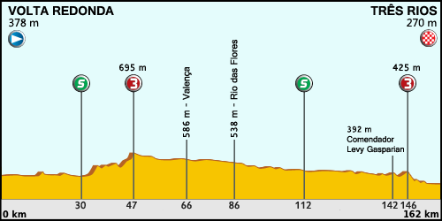 Profile of the 2nd stage of the 2012 Tour do Rio